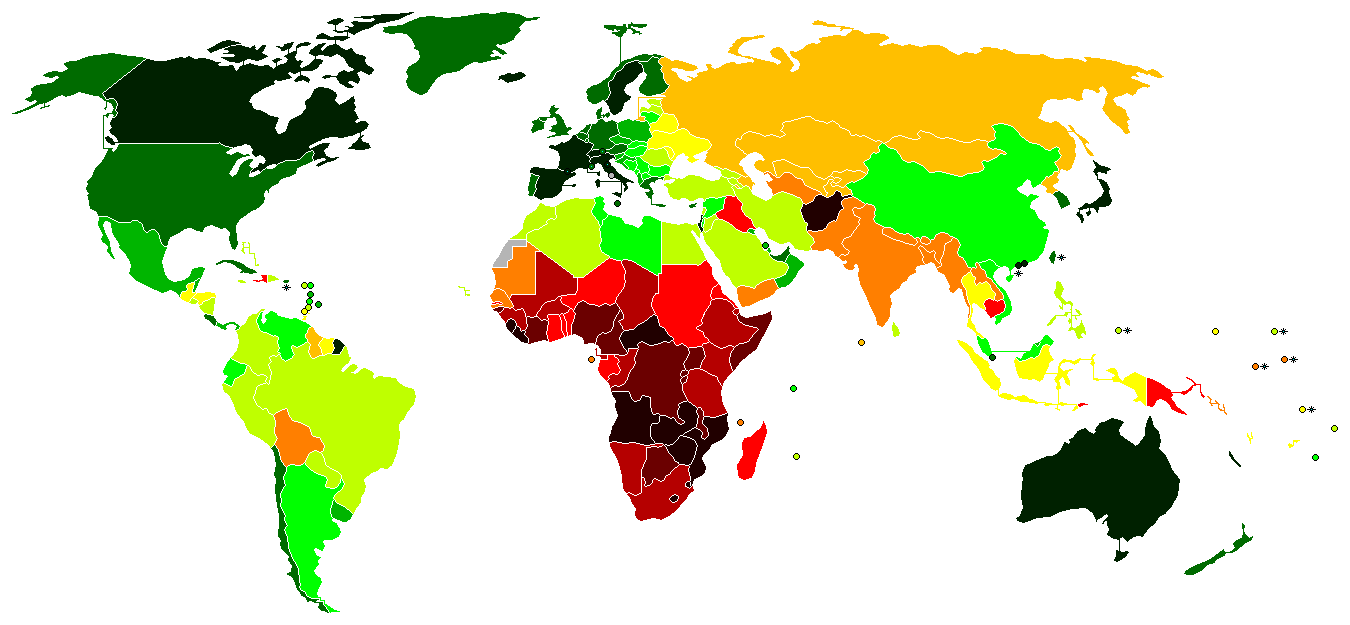 Life Expectancy at birth (years) over 80 77.5-80 75-77.5 72.5-75 70-72.5 67.5-70 65-67.5 60-65 55-60 50-55 45-50 under 45 not available Life expectancy at birth (years) world map including: 1) All 192 UN member states. 2) Occupied Palestinian Territories. 3) Republic of China-Taiwan. 4) Hong-Kong and Macau Special Administrative Regions of the People's Republic of China.